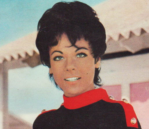 Italian actress Marilù Tolo